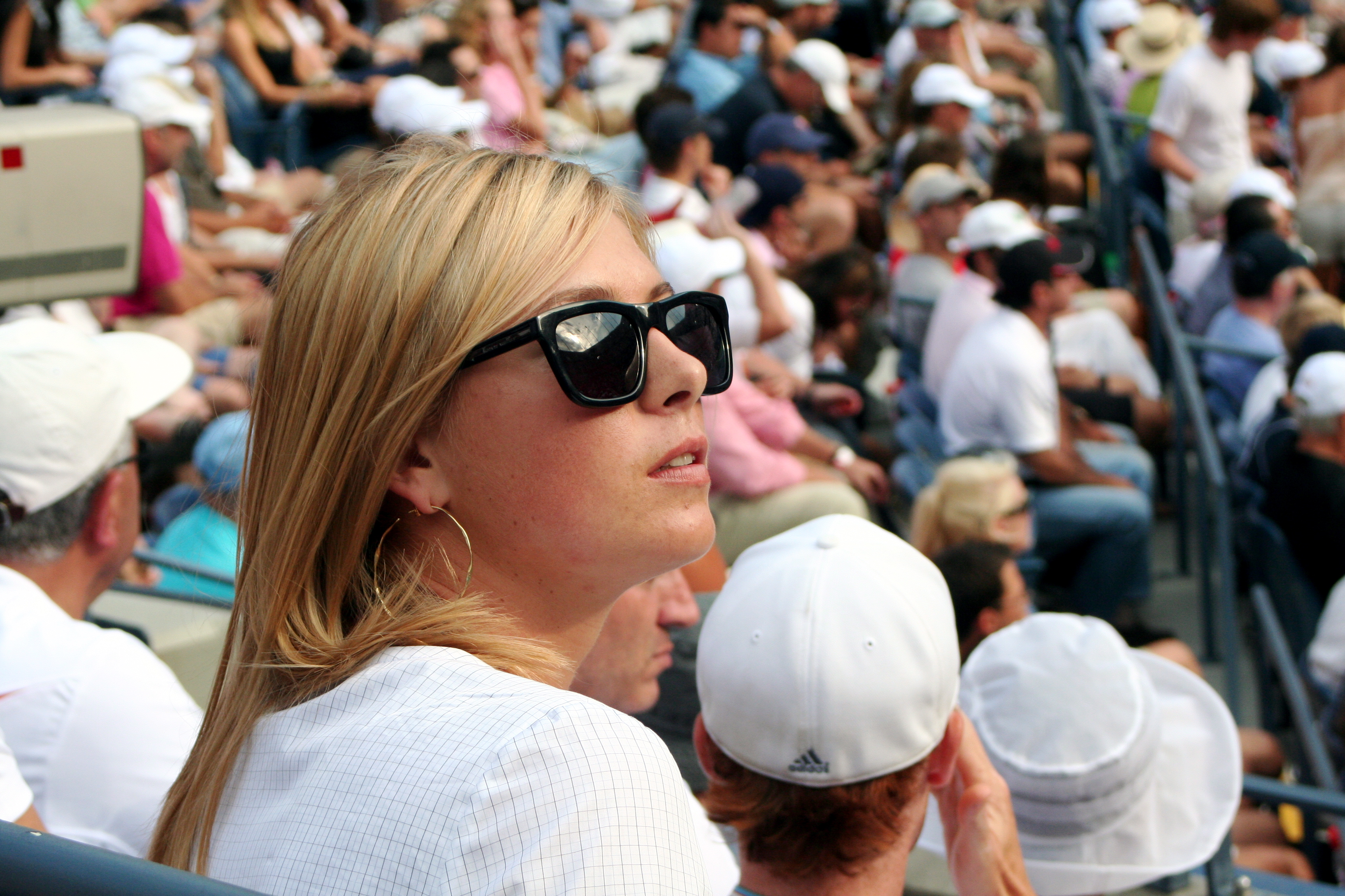 Maria Sharapova at the 2007 US Open. She was with Novak Djokovic's family